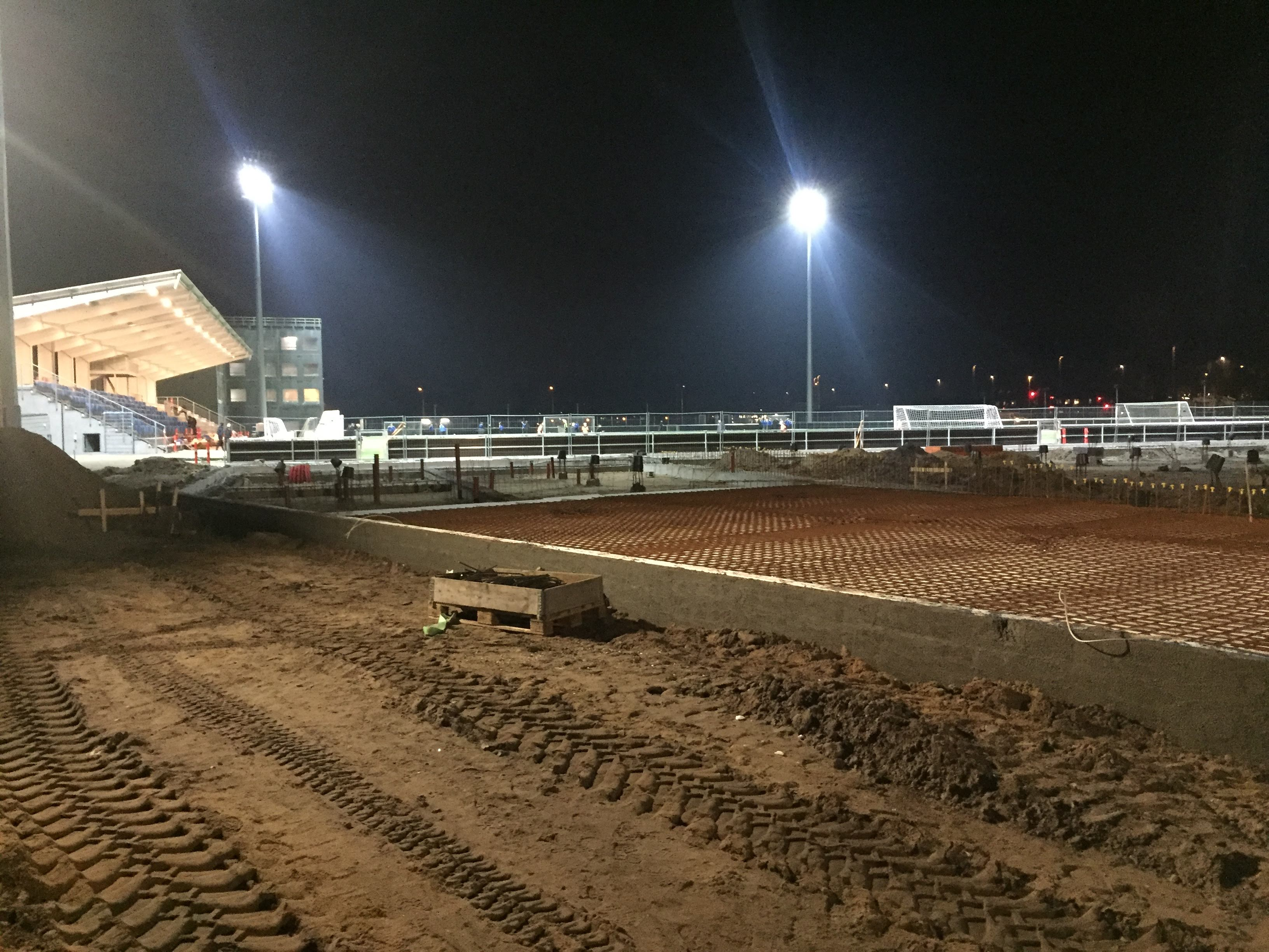 A picture of Køge Stadium at night during the renovation-stage.